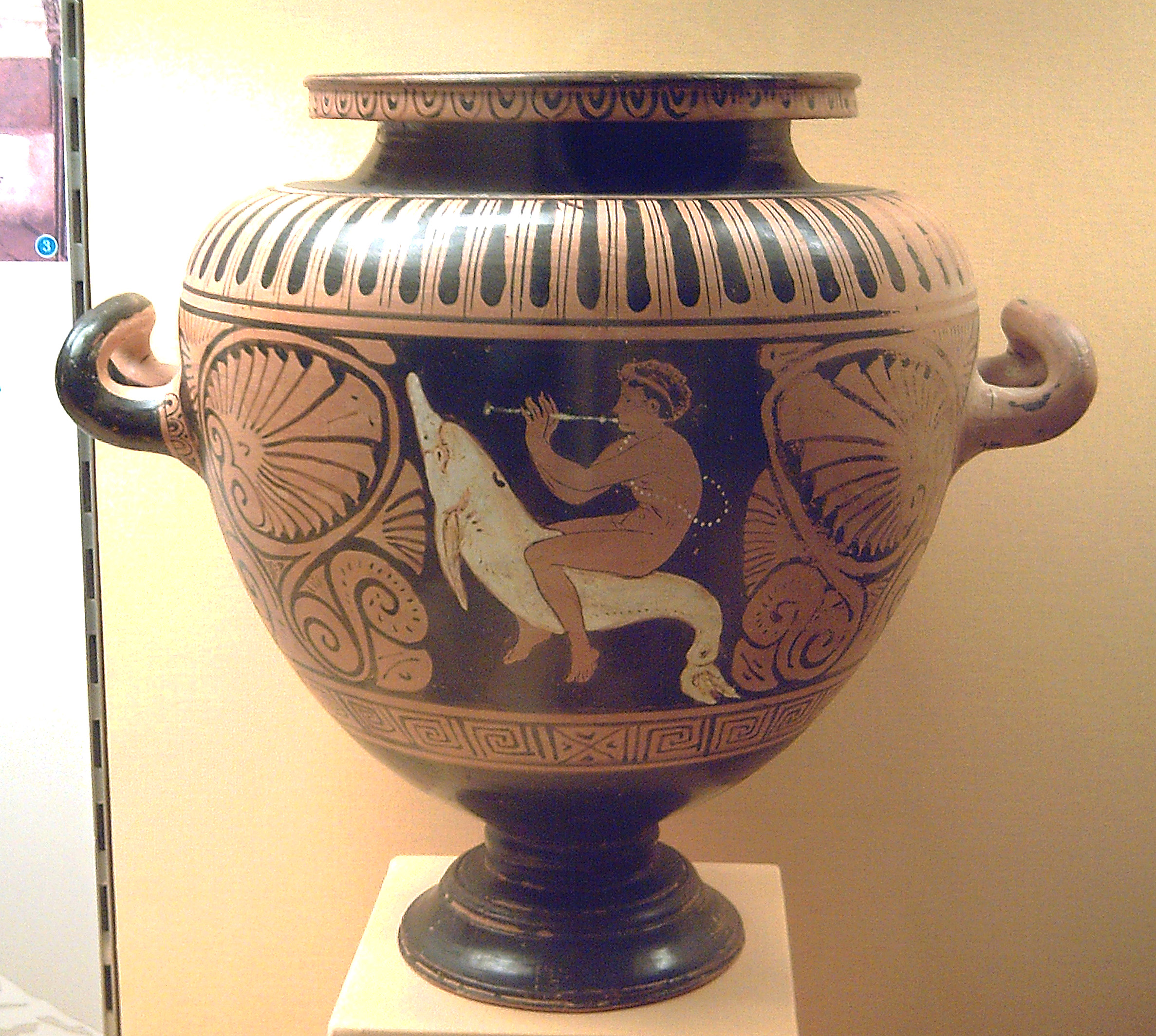 Youth playing the flute and riding a dolphin. Red-figure stamnos. From Etruria.